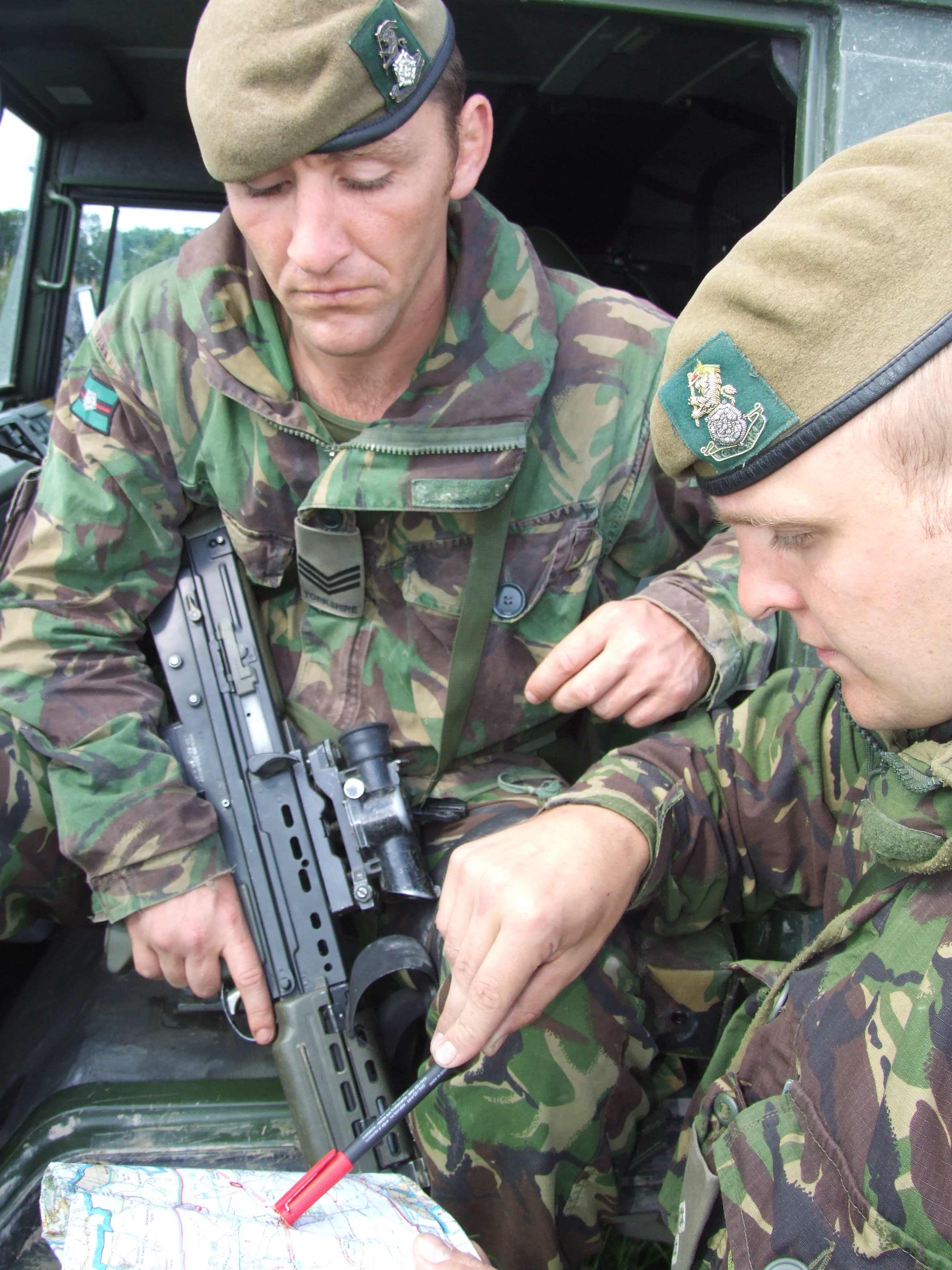 Sergeant Lee Johnson & Platoon Lt, B Coy, 2nd Battalion Yorkshire Regiment(Green Howards), Salisbury Plain, July 2007